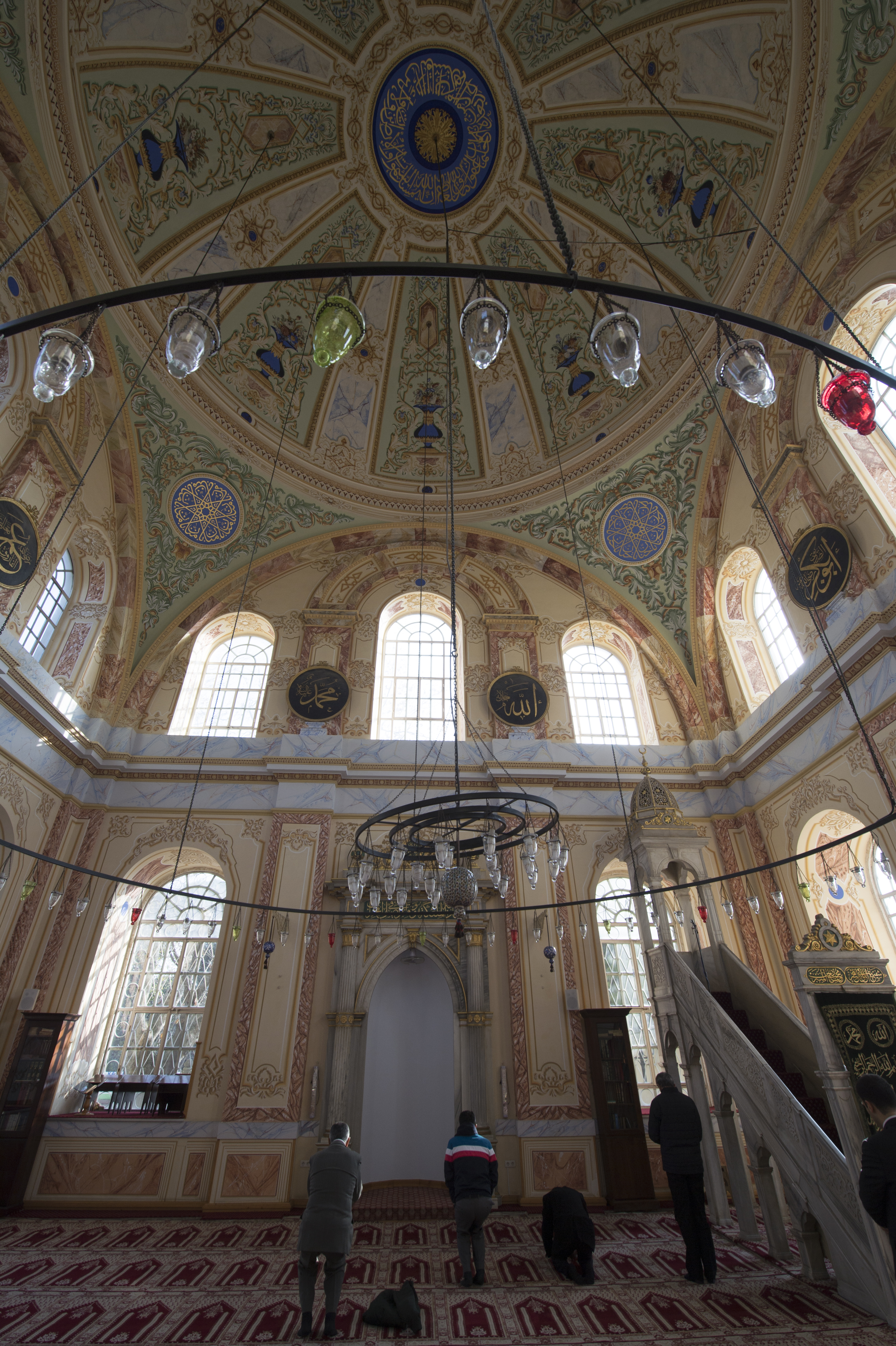 Altunizade mosque or Zühtü Ismail Pasha Mosque is located in the district of Üşküdar of Istanbul. It dates from the Ottoman period and was built by Ismail Pasha Zühdü altunizade. The construction of the mosque began in 1865, it was opened for worship in 1866, one year later. The mosque has undergone an extensive restoration process in 2005. The original plan was built as a mosque. Later a cemetery, a fountain and rows of shops were added.